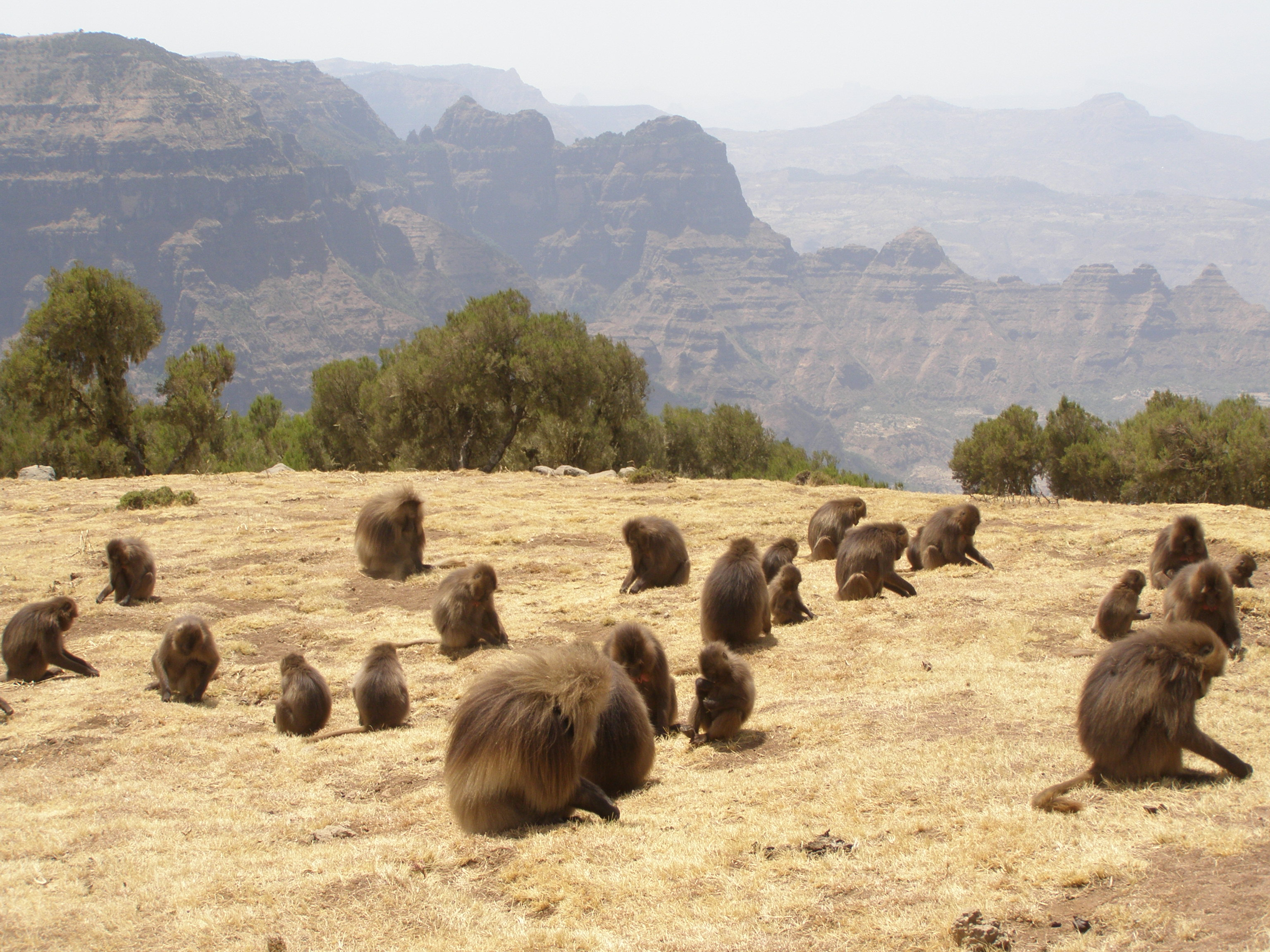 Troop of baboons Gelada at lunch - Park of the Simian's moutains - Ethiopia